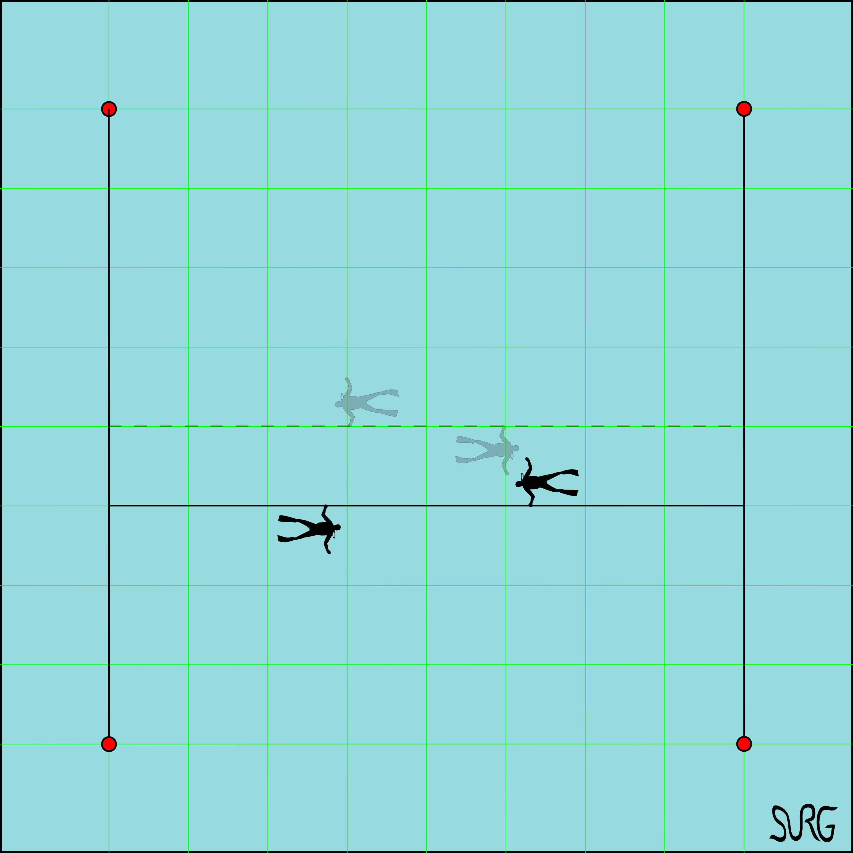 Illustration of underwater jackstay search pattern